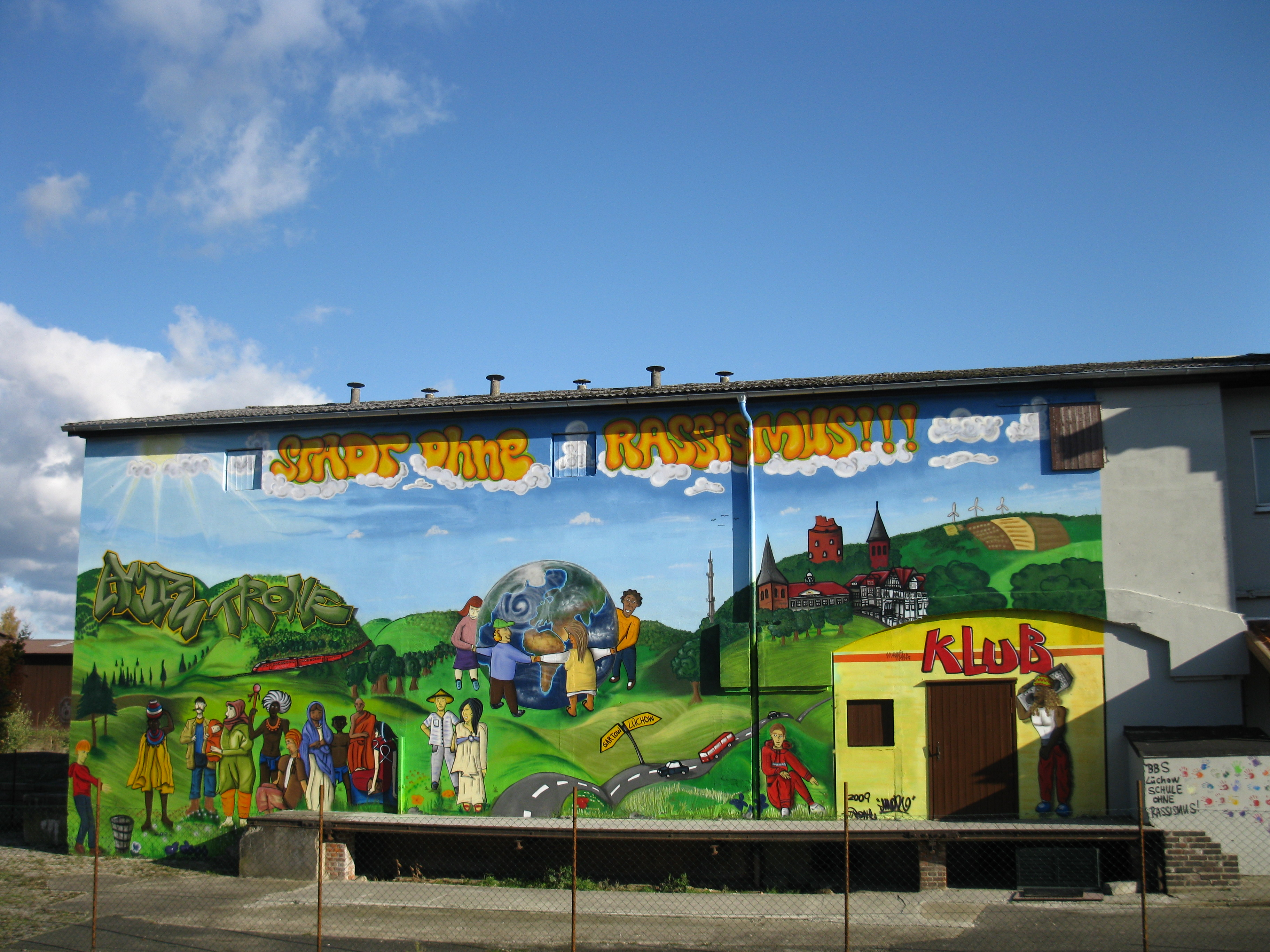 Wall picture: "Luechow is a town without rassism", Luechow, Germany